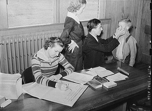 Doctor and nurse giving examination and treatment for hookworm to one of children in Goodman School health room. Coffee County, Alabama.